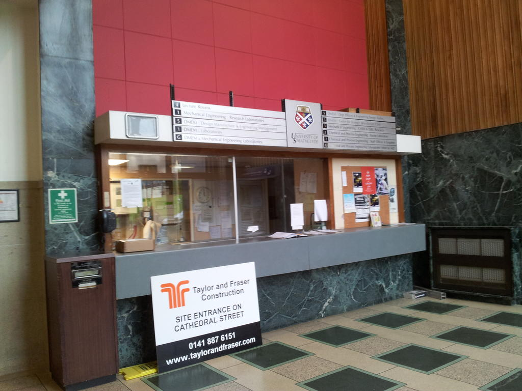 The foyer of the James Weir Building on the 26th November 2012 by Stewart Key